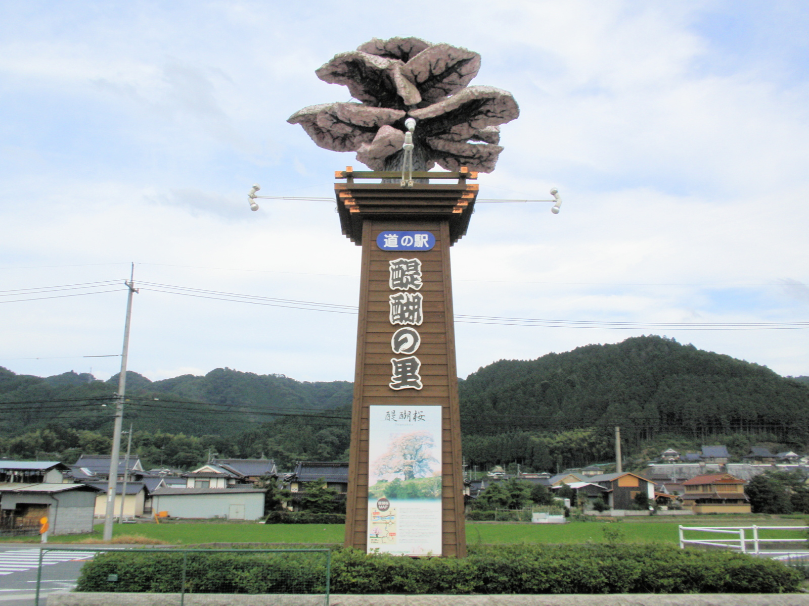 Michinoeki Daigo no sato in Maniwa City, Okayama Prefecture, Japan